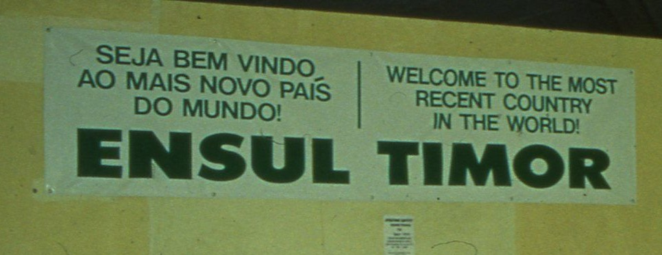 East-Timor airport Dili in 2000: Welcome to the most recent country in the world!